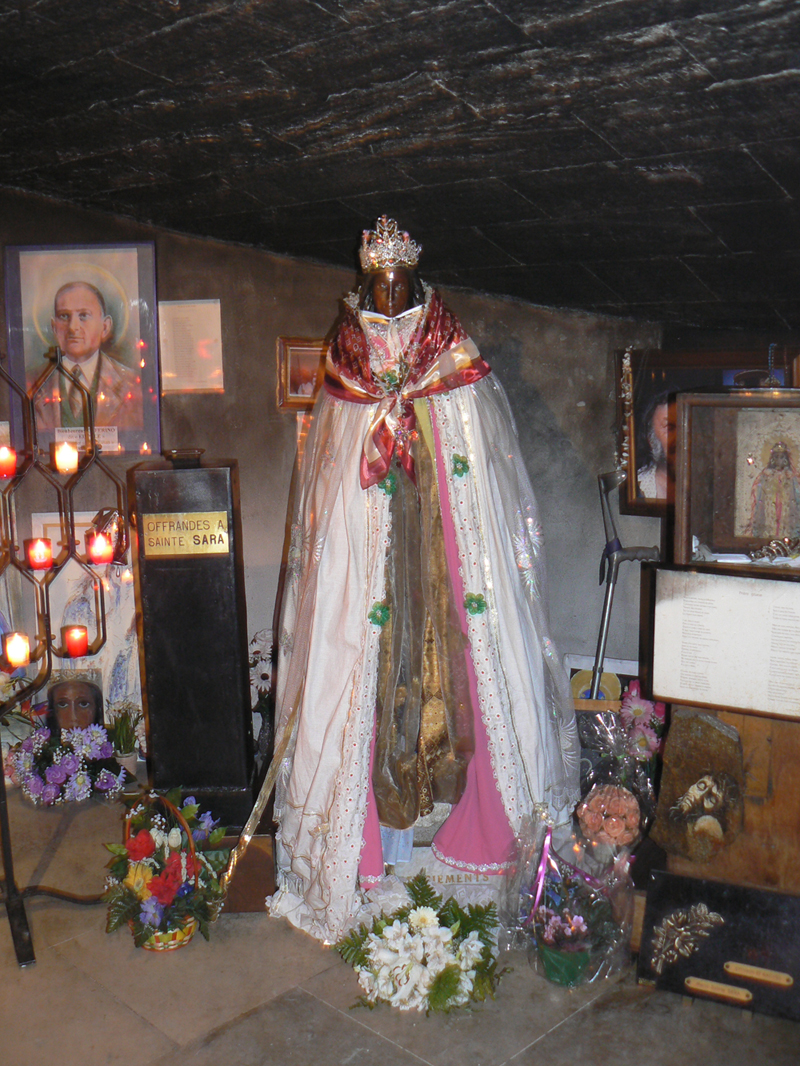 Saintes-Maries-de-la-Mer Sainte Sara